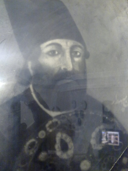 Portrait of my great-grandfather Yusef Khan-e Gorji (Sepahdar) from family album